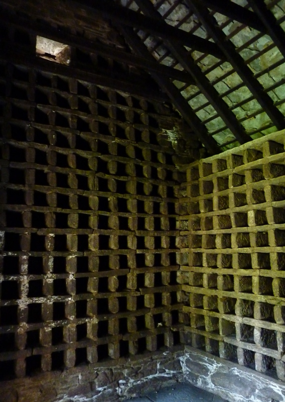 Tealing Dovecot, Tealing, Angus, Scotland - interior